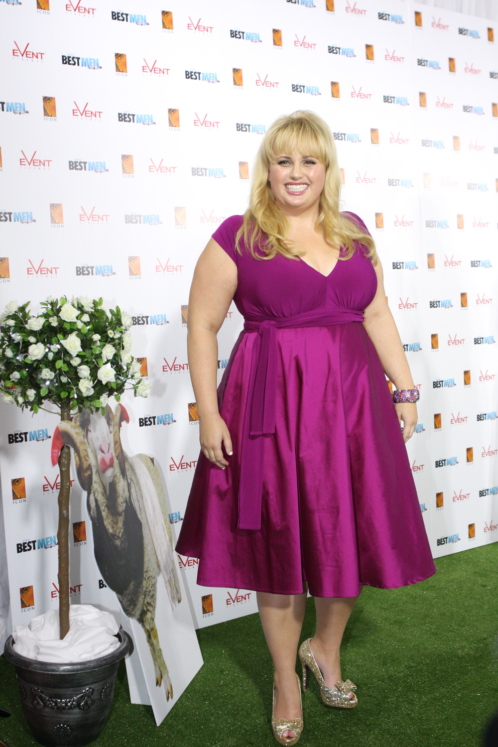 Rebel Wilson at the A Few Best Men movie premiere in Sydney.